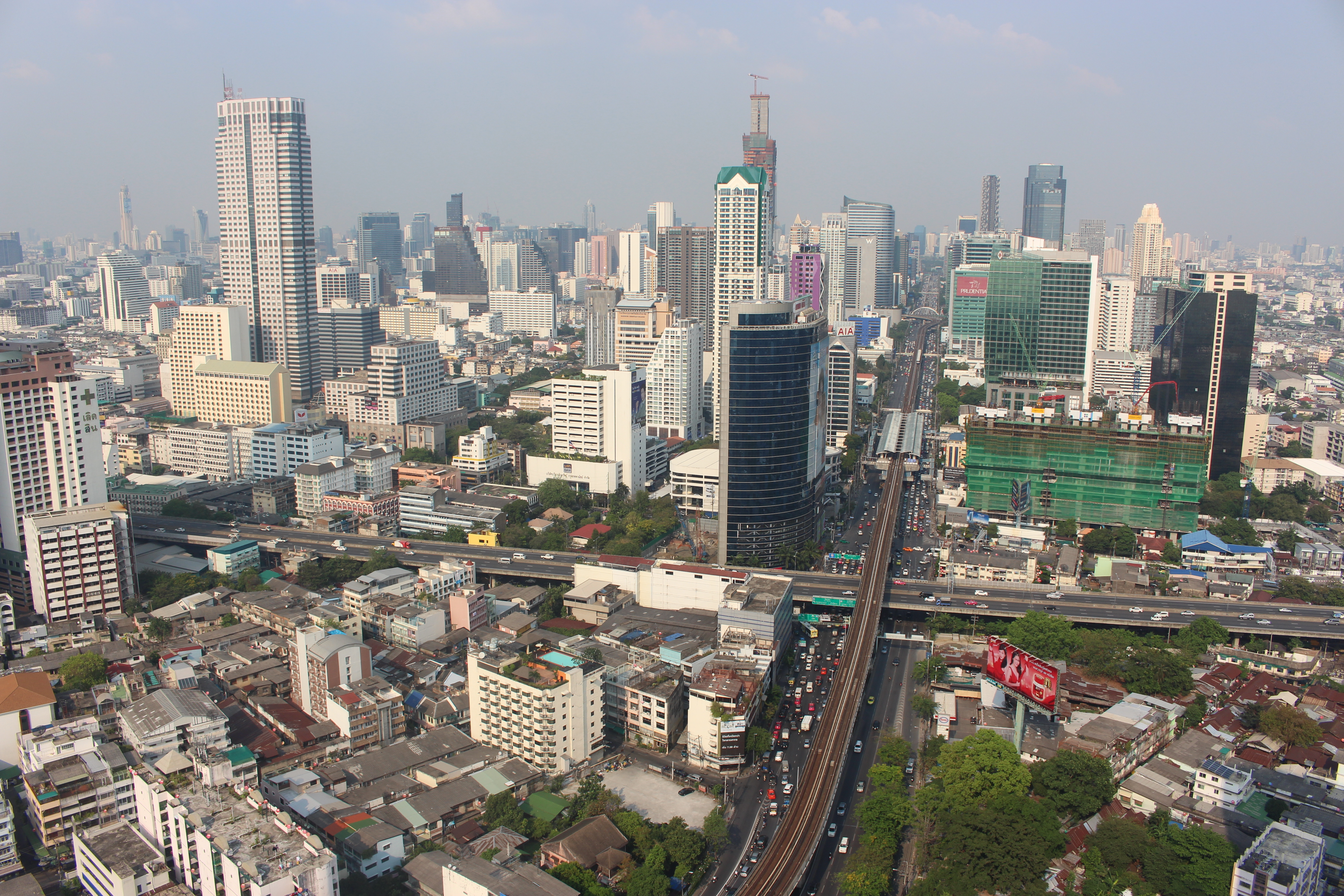 View from the Sathorn Unique Tower/Ghost Tower, Bangkong, Thailand.